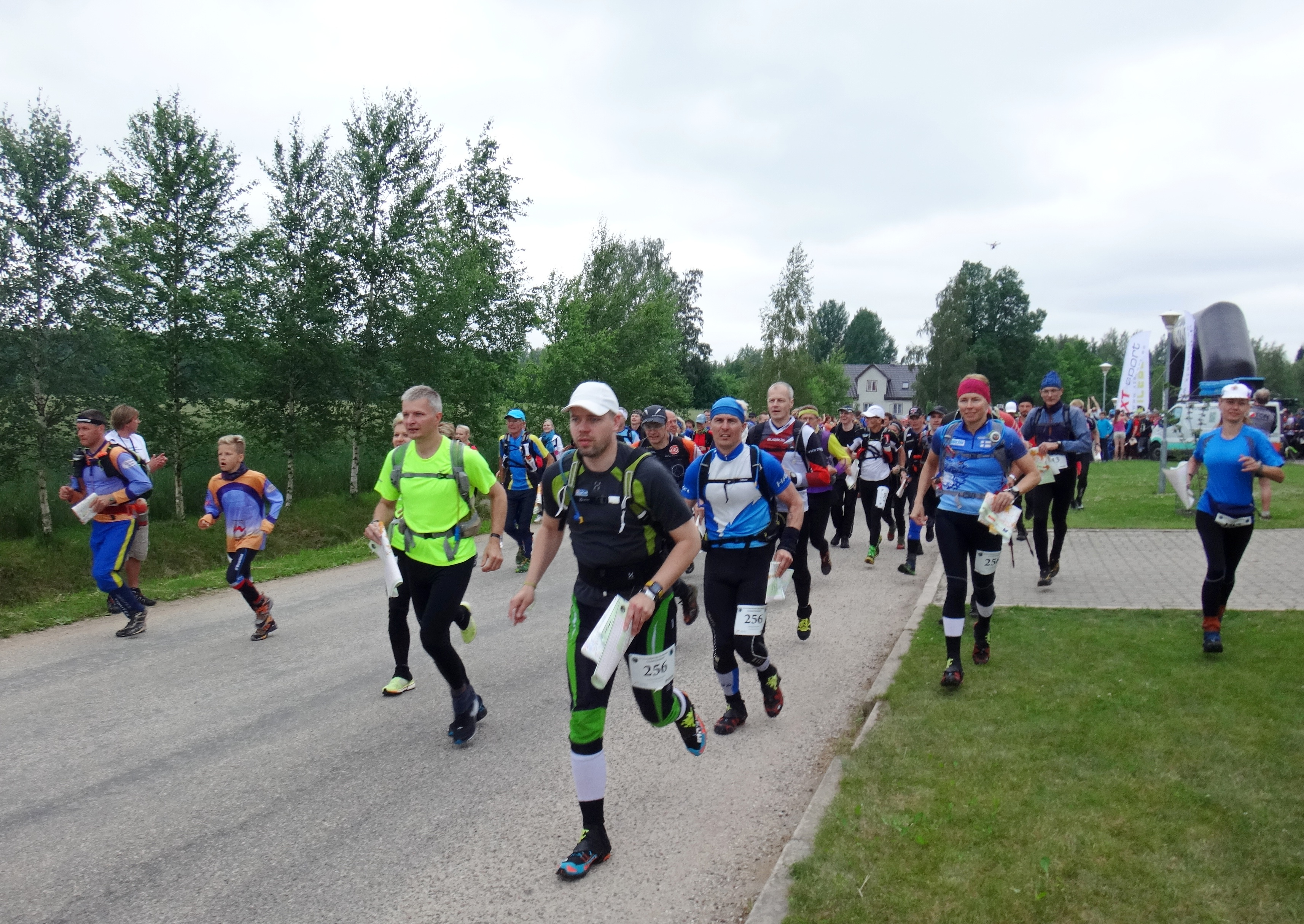 Start of the 11th European Rogaining Championships 2014 (7-8 June 2014, Estonia).